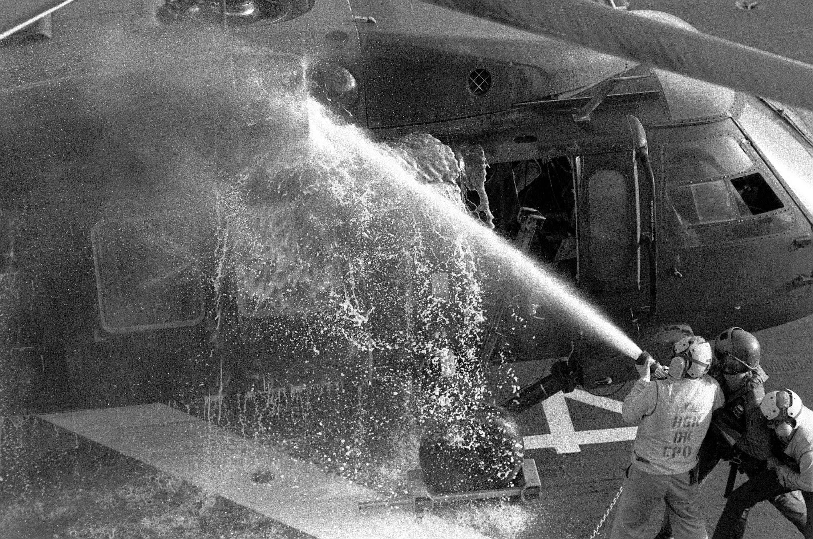 U.S. Navy flight deck crewmen hose down a U.S. Army Sikorsky UH-60A Black Hawk helicopter upon its landing aboard the amphibious assault ship USS Guam (LPH-9) during "Operation Urgent Fury". The helicopter's engine was hit by anti-aircraft fire on the island of Grenada on 25 October 1983.